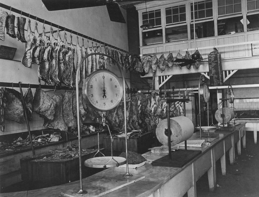 Interior view of a butcher shop established in Roma Street, Brisbane, ca. 1917. The Roma Street butchery was the first such shop opened under the direction of the Ryan Government. It opened for business on 12 November 1915. (Description supplied with photograph.).